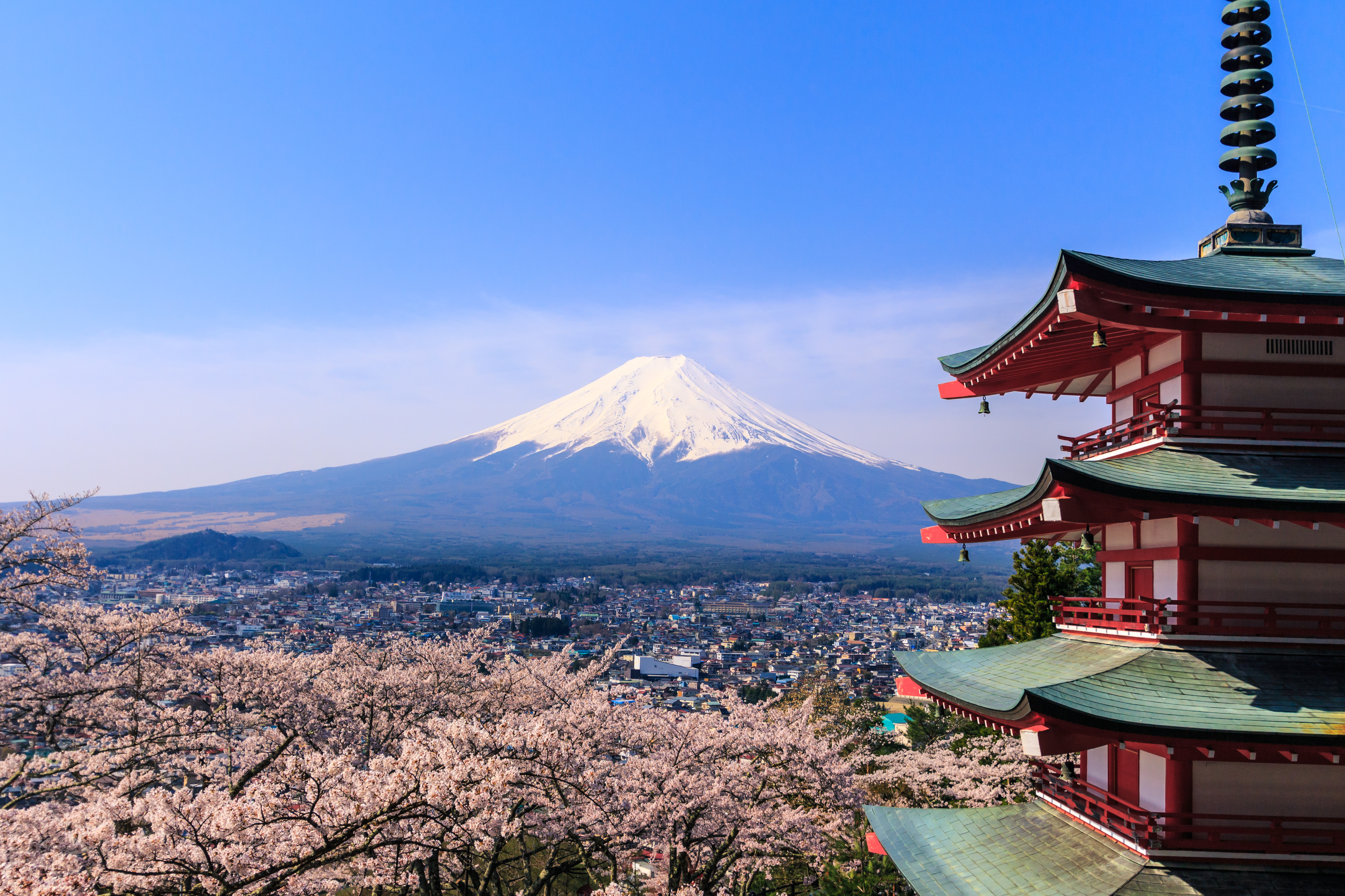 Chūrei-tō pagoda and Mount Fuji with cherry blossoms in the Arakurayama Sengen Park, Fujiyoshida, Yamanashi, central Japan.